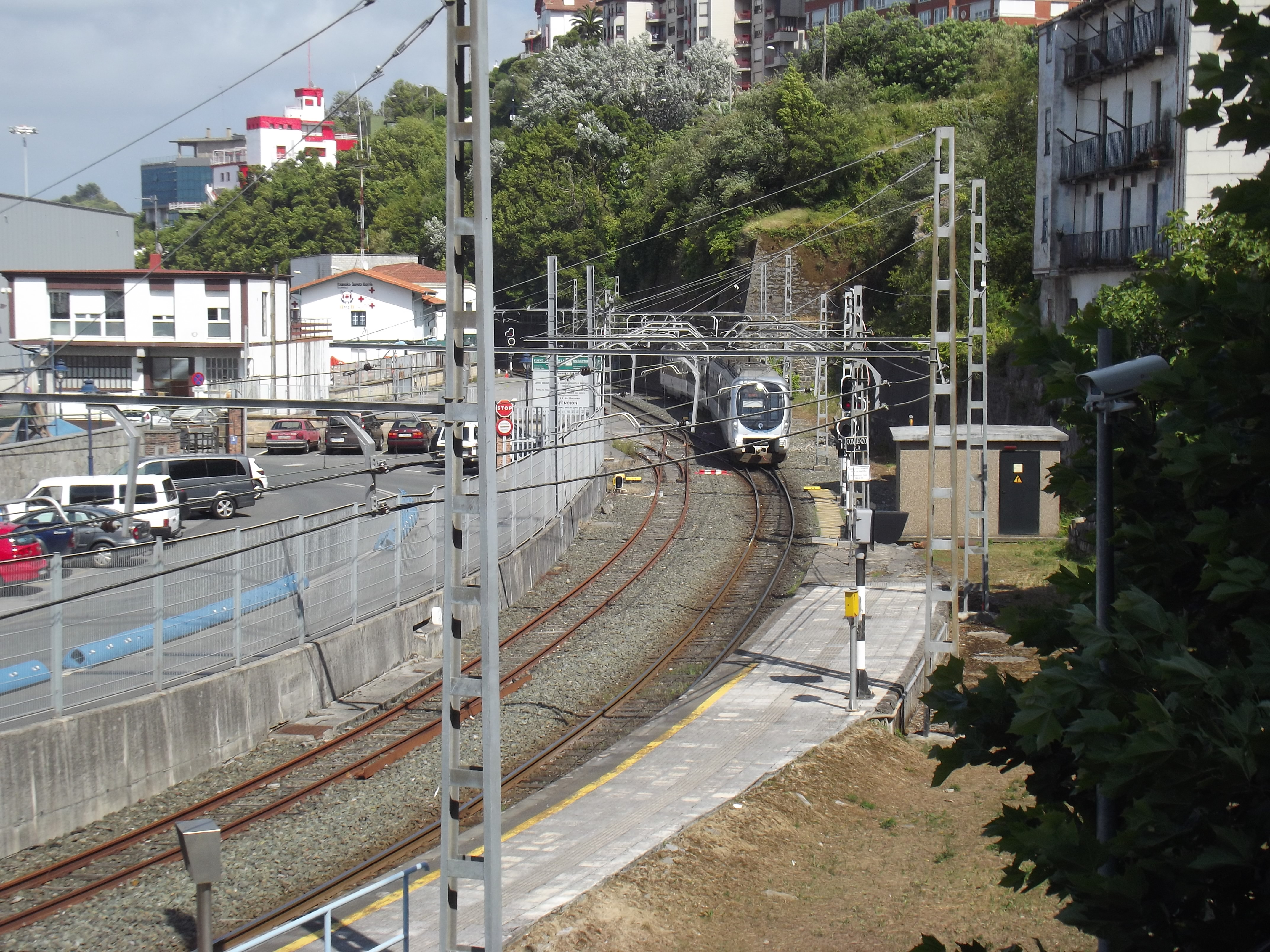 EuskoTren ariving in Bermeo station